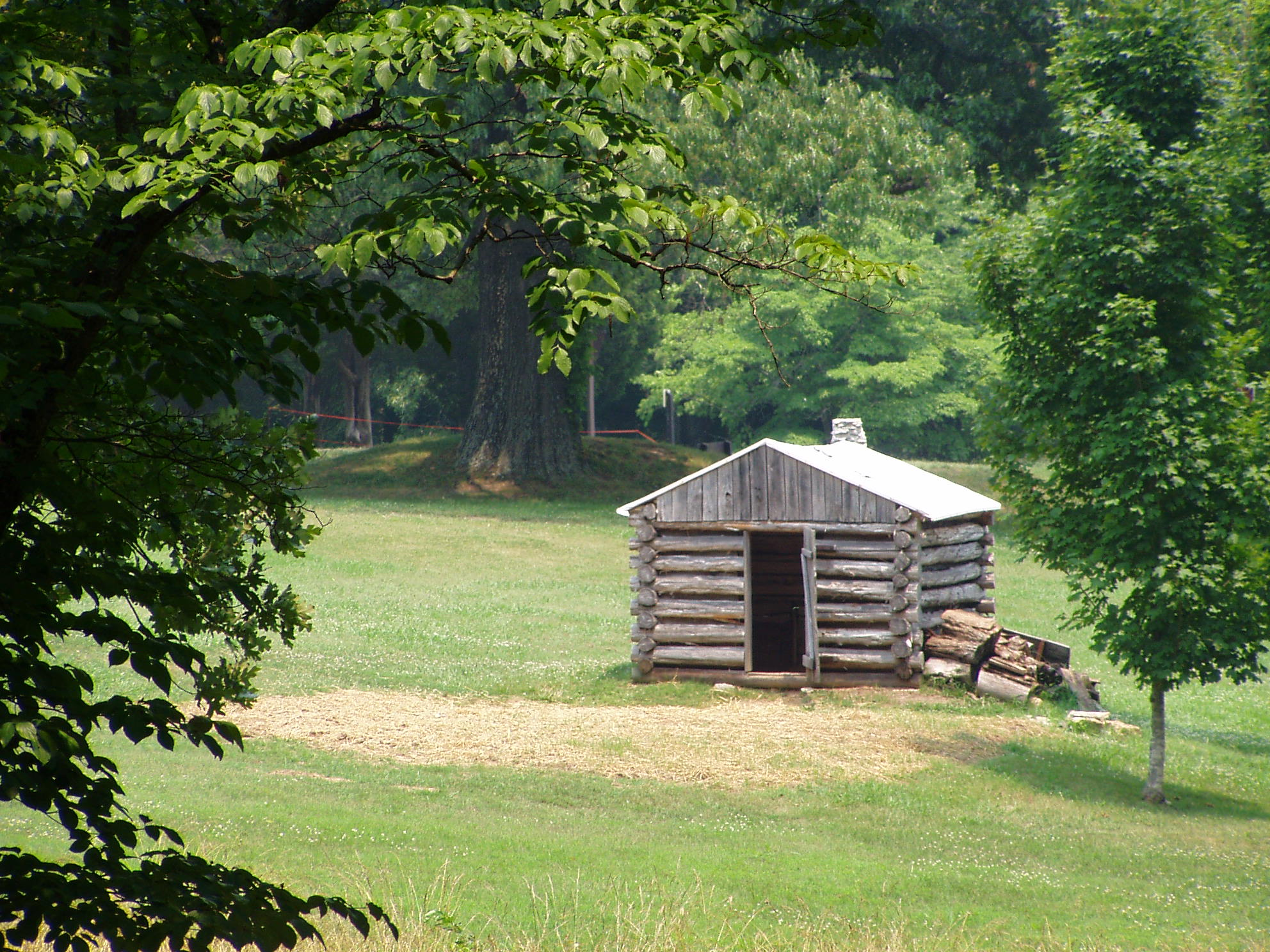 Soldiers Quarters of Fort Donelson National Battlefield, Stop #3